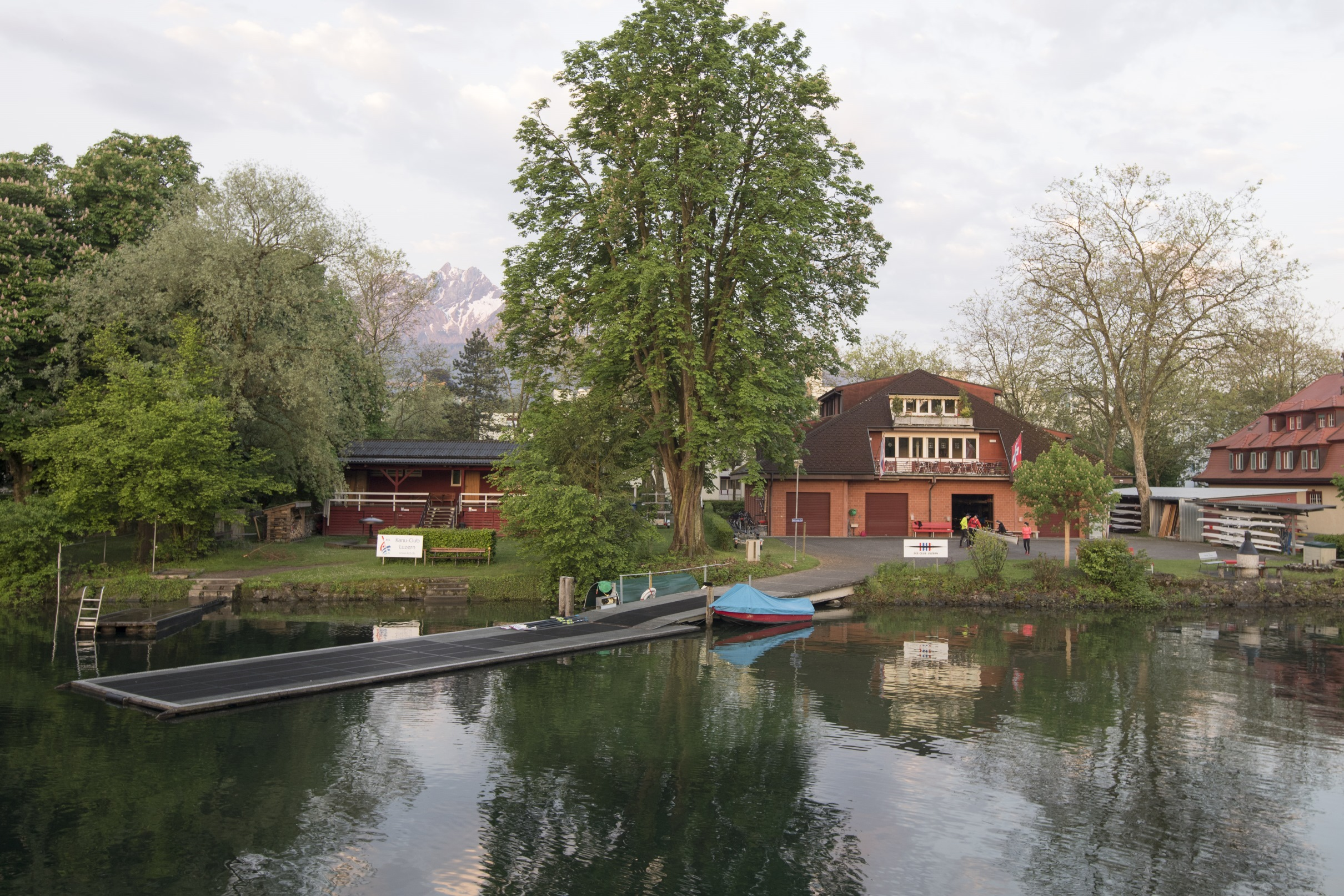 The Boathouse of the See-Club Luzern. Switzerland's biggest rowing club, located on Alpenquai 33a in Lucerne.